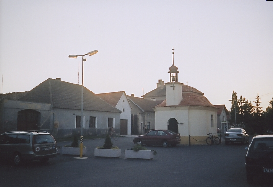 Village of Zabovresky nad Ohri